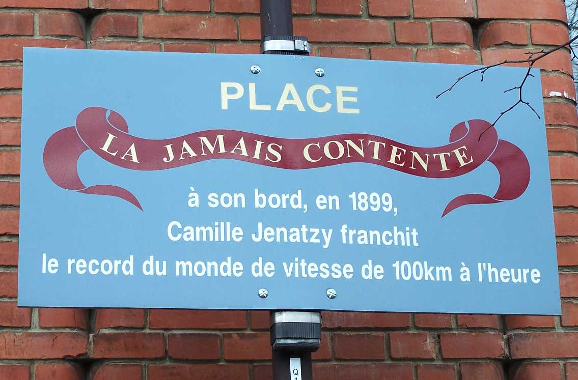 Street sign in Achères (Yvelines, France)